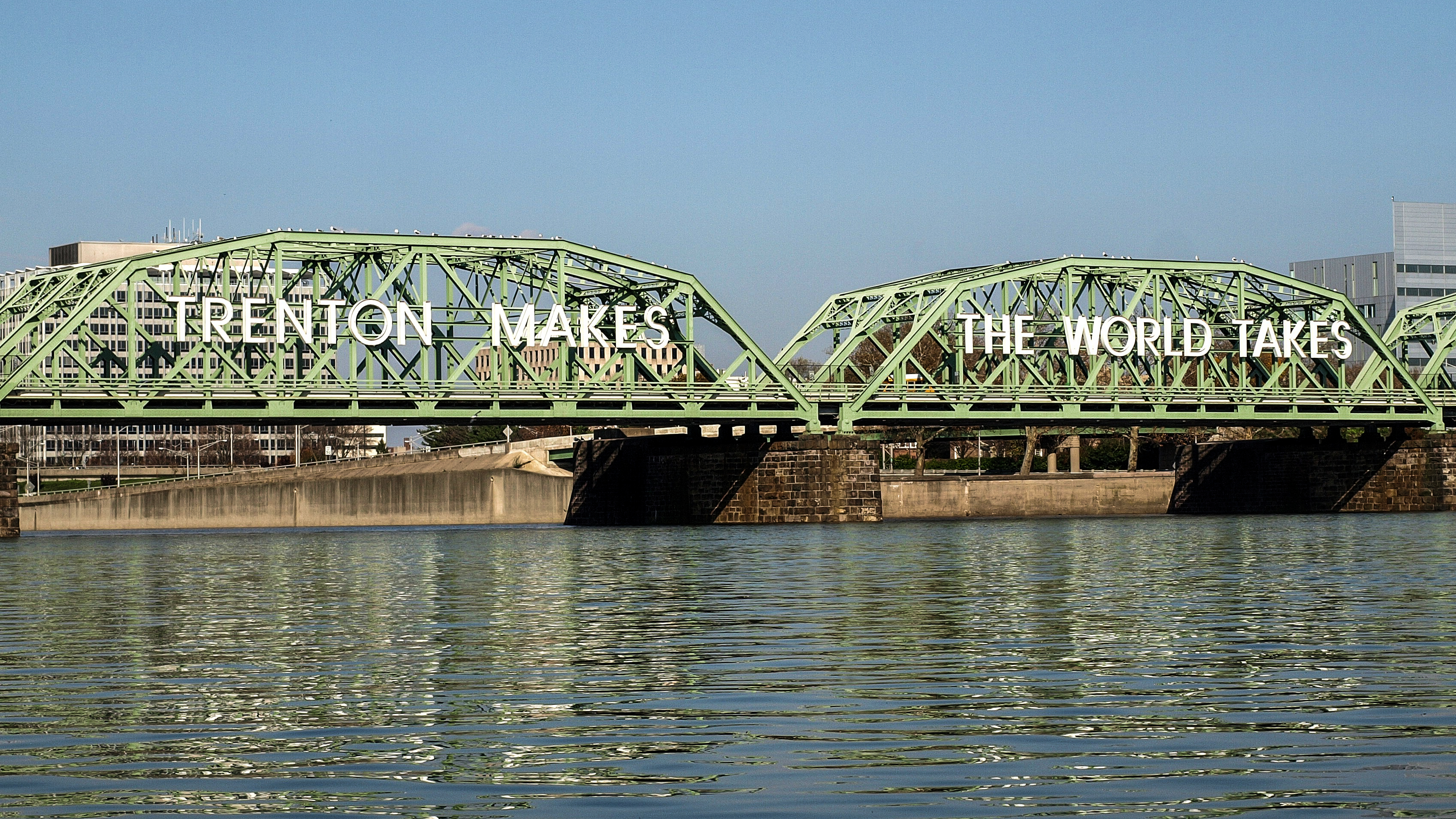 Lower Trenton Bridge over the Delaware River, Morrisville PA - Trenton NJ (looking northeast by kayak)